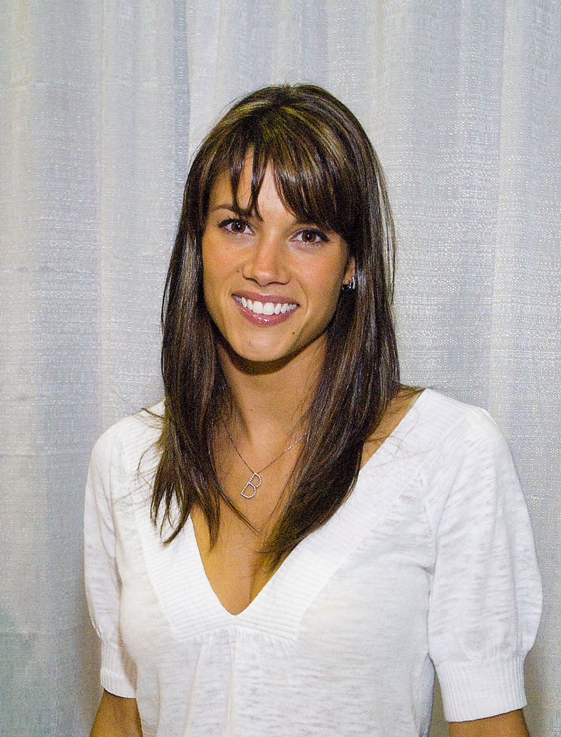 Missy Peregrym, June 28, 2008, Wizard World Comic Book Convention, photo by Adam Bielawski